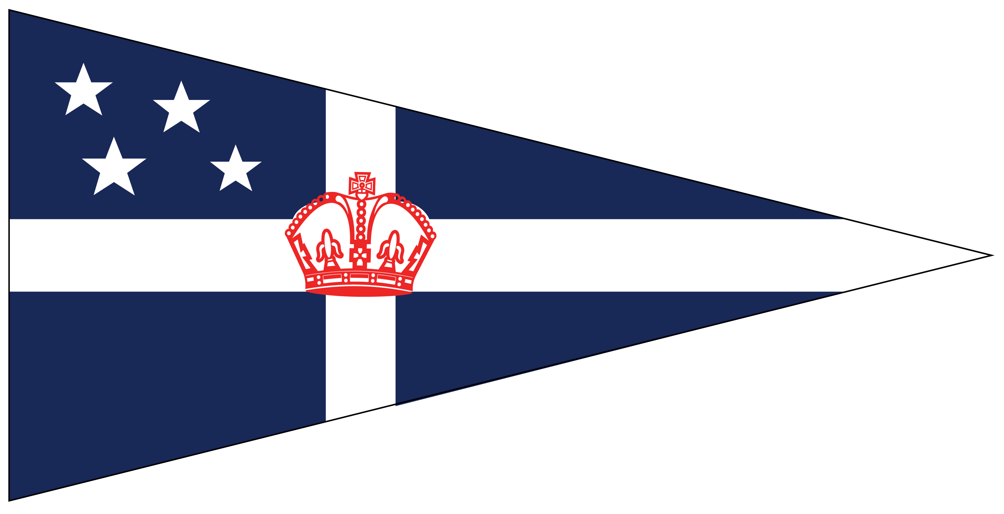 RNZYS Official Burgee